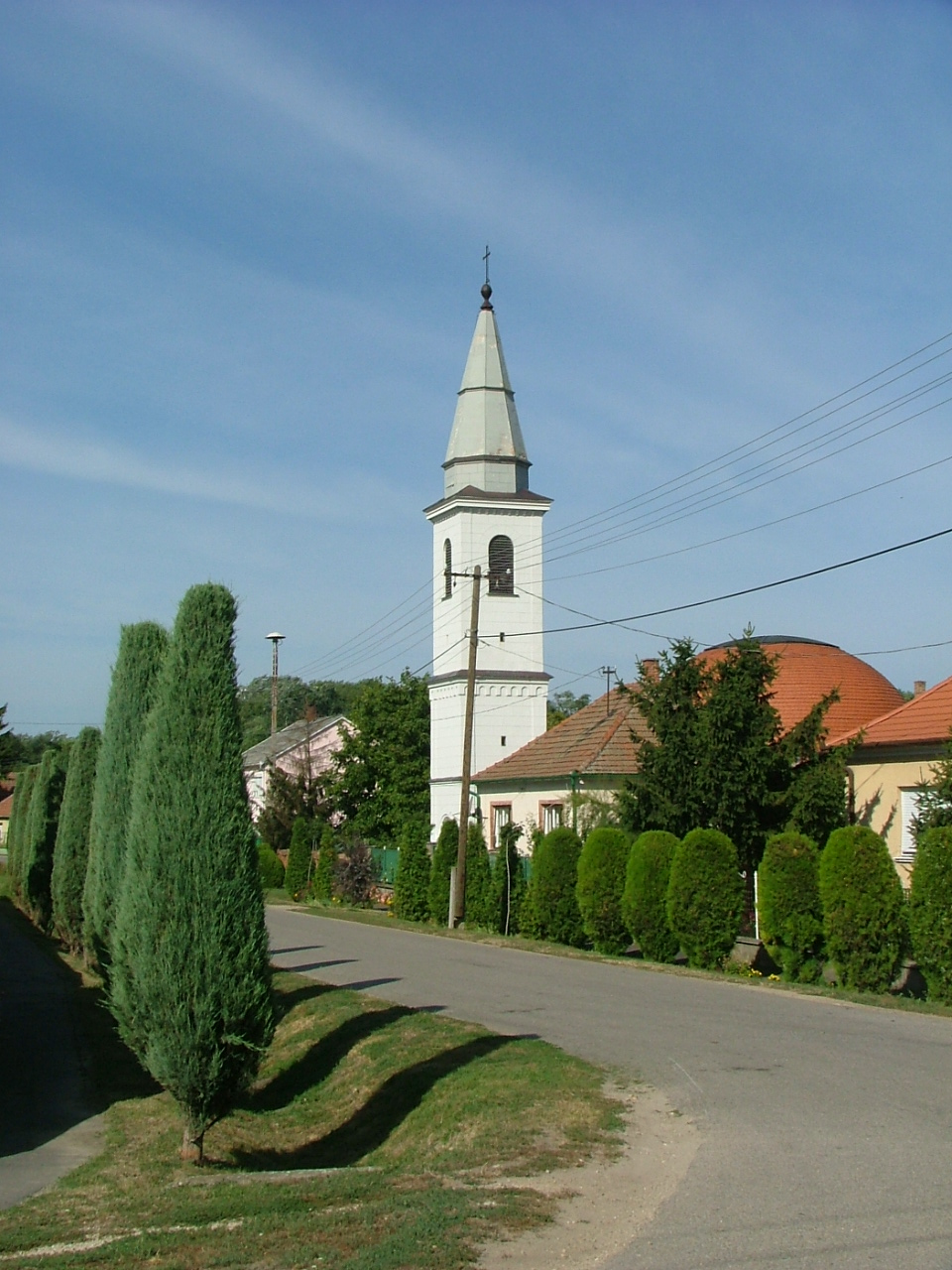 Sopronnémeti , lutheran church